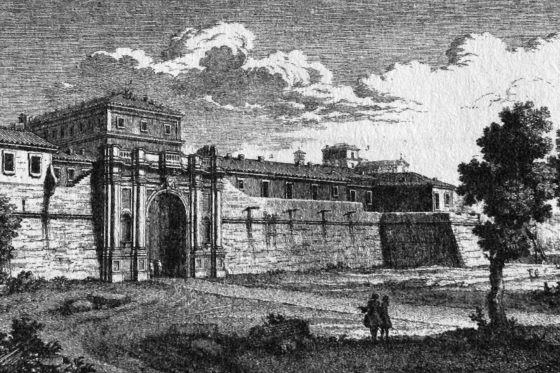 1) Ospizio di S. Michele; 2) Dogana (customs) di Ripa Grande; 3) S. Maria del Priorato; 4) dock for unloading marbles.